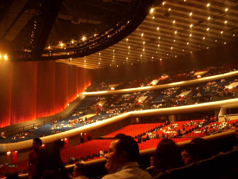 An overview of the interior, seating and lighting of this huge theater in Mexico City.